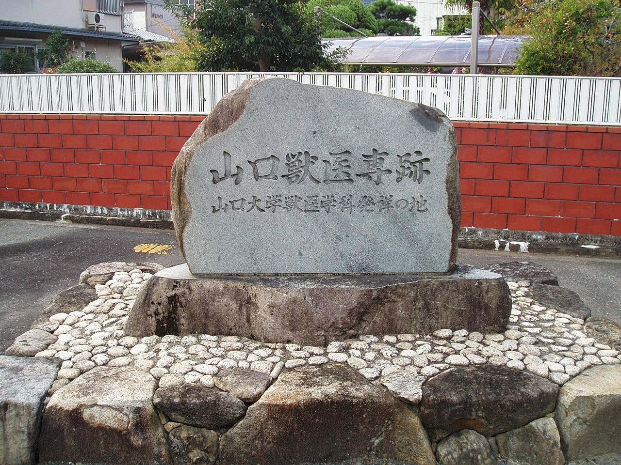 Memorial of Yamaguchi Veterinary College, one of the predecessors of Yamaguchi University, located in Yamaguchi (formerly Ogori), Yamaguchi Pref., Japan. The college was located here from 1944 to 1948.